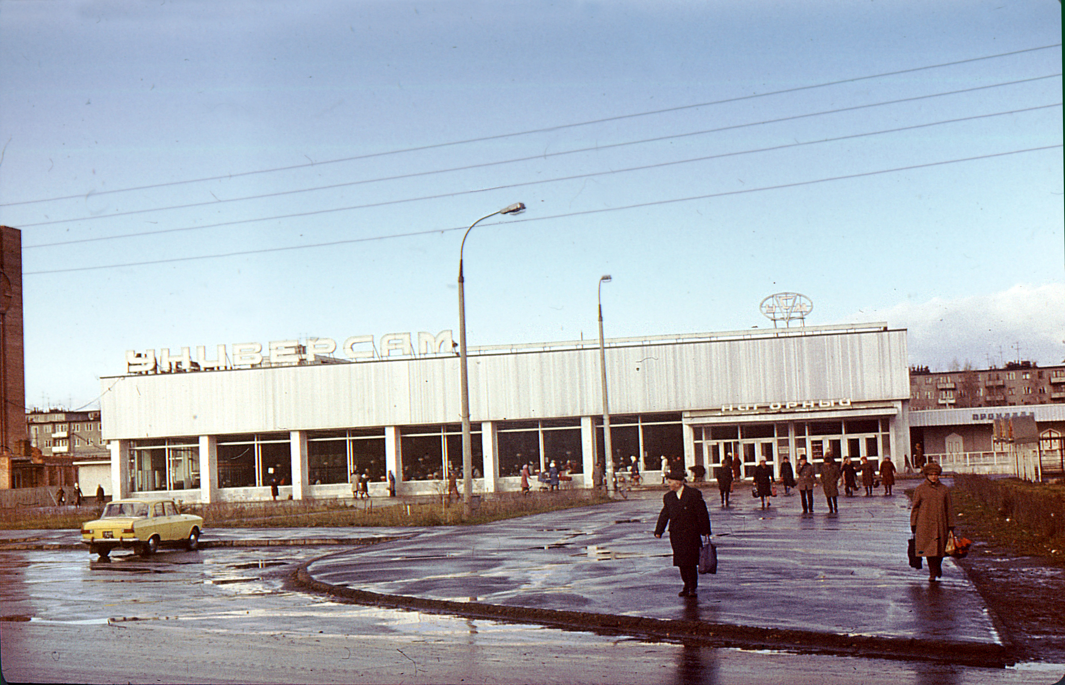 Gorky City. Nagorny Universam (Store)